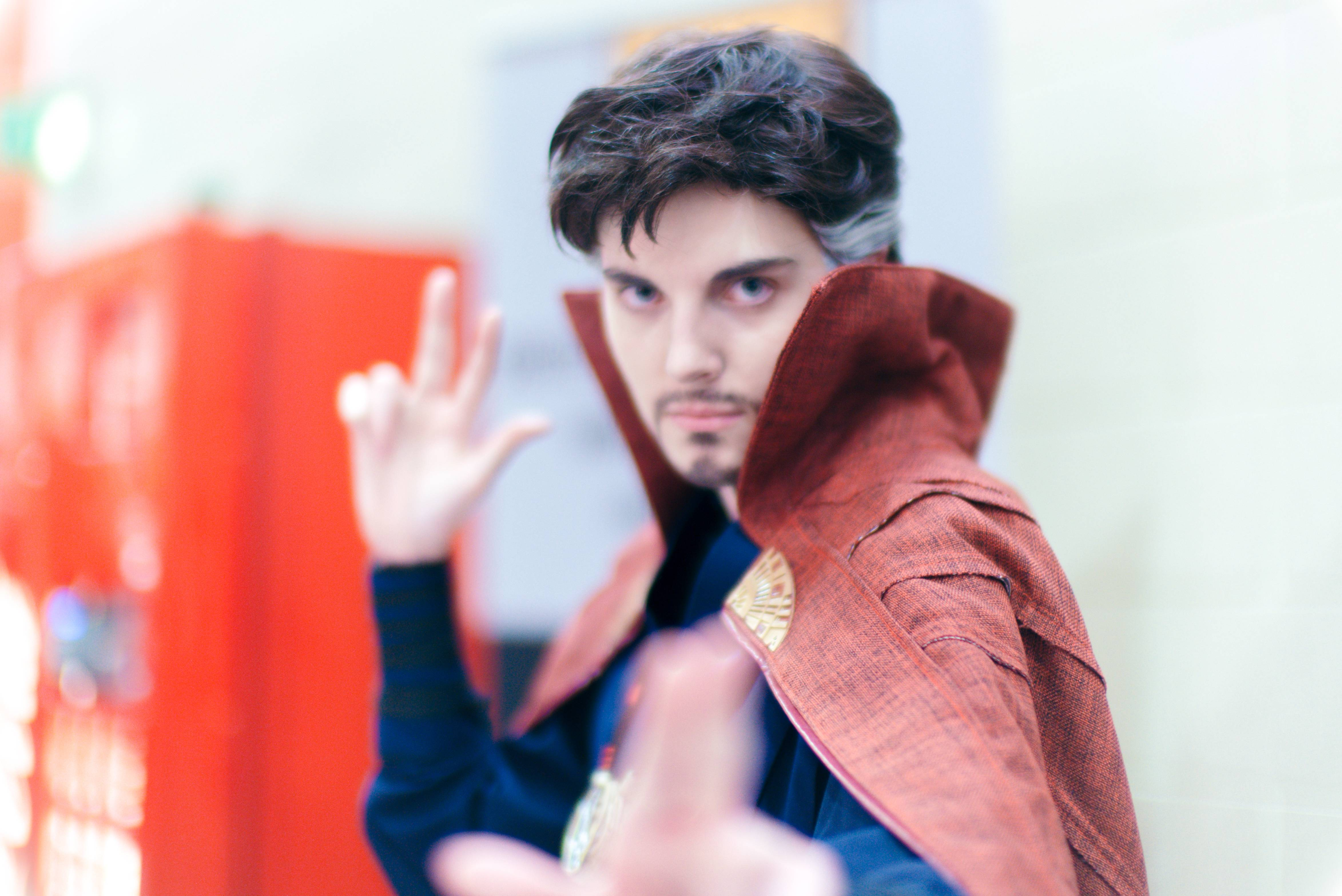 Dr. Strange Cosplay at London MCM October 2016